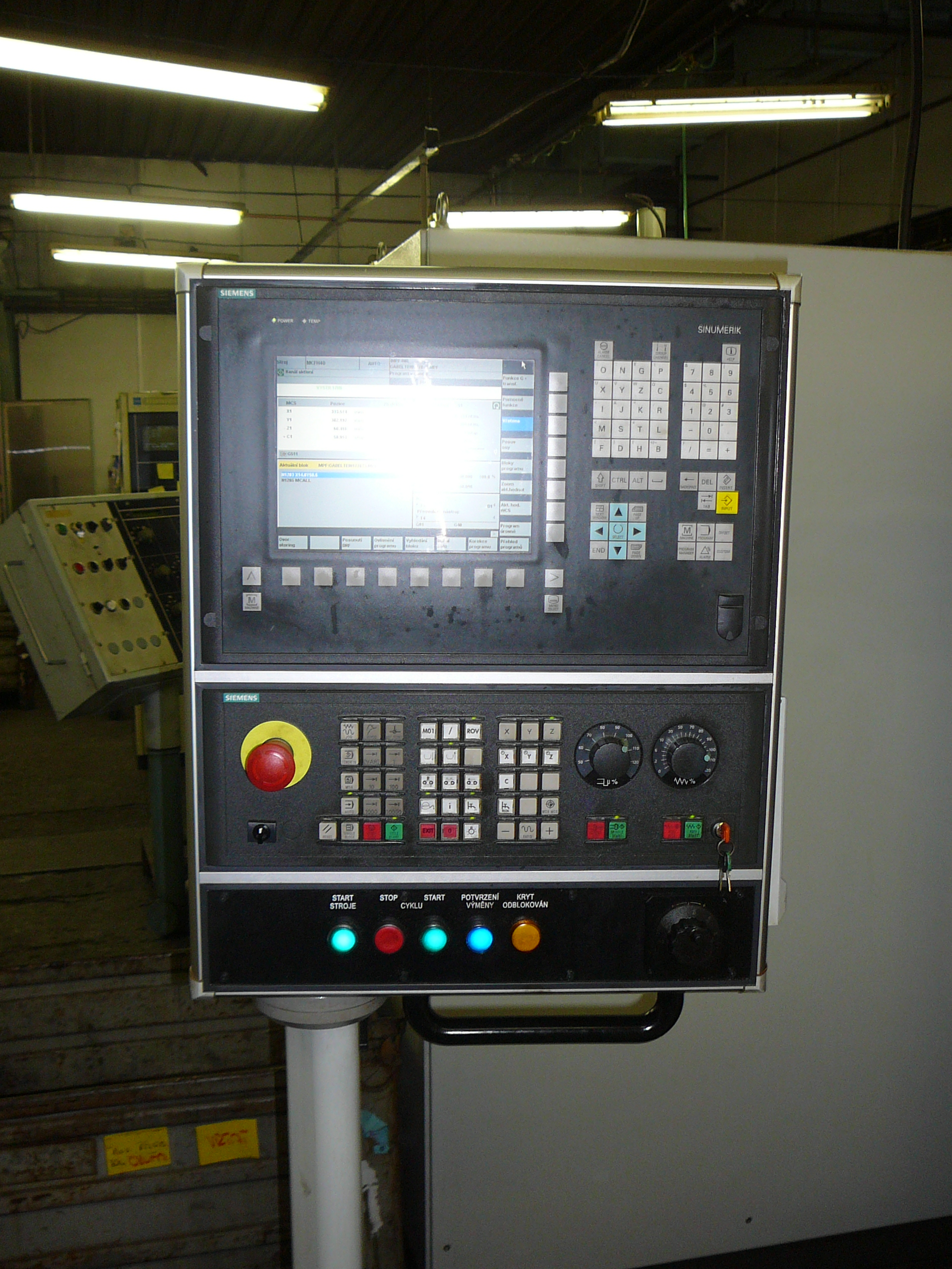 Control panel of horizontal machining centre MCFH 40 CNC, locksmithery Oldřich Vaňhara, Fryšták